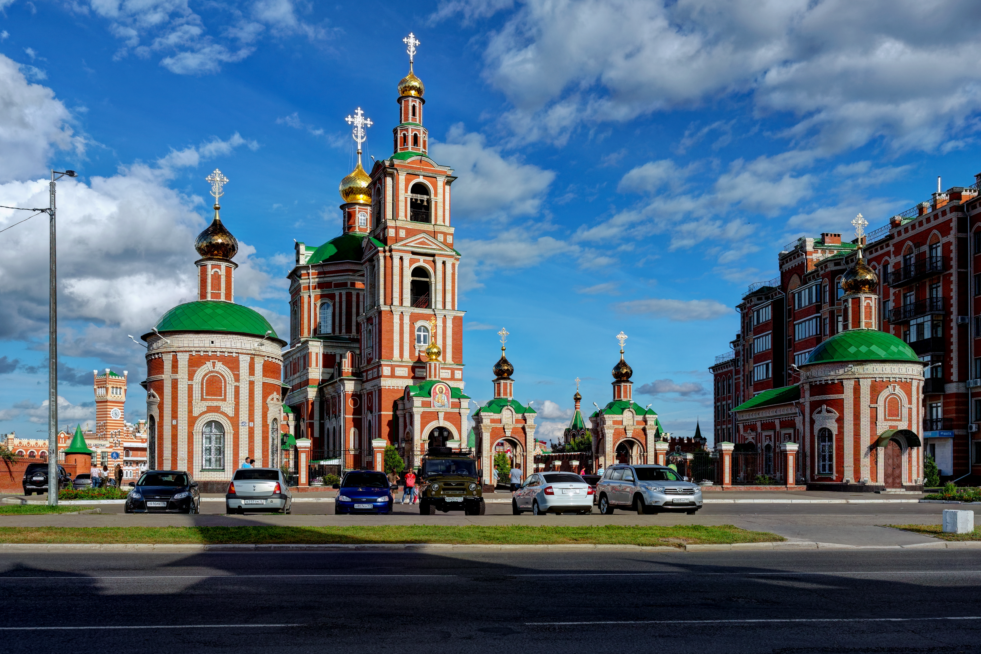 Yoshkar-Ola. Cathedral of the Resurrection of Christ